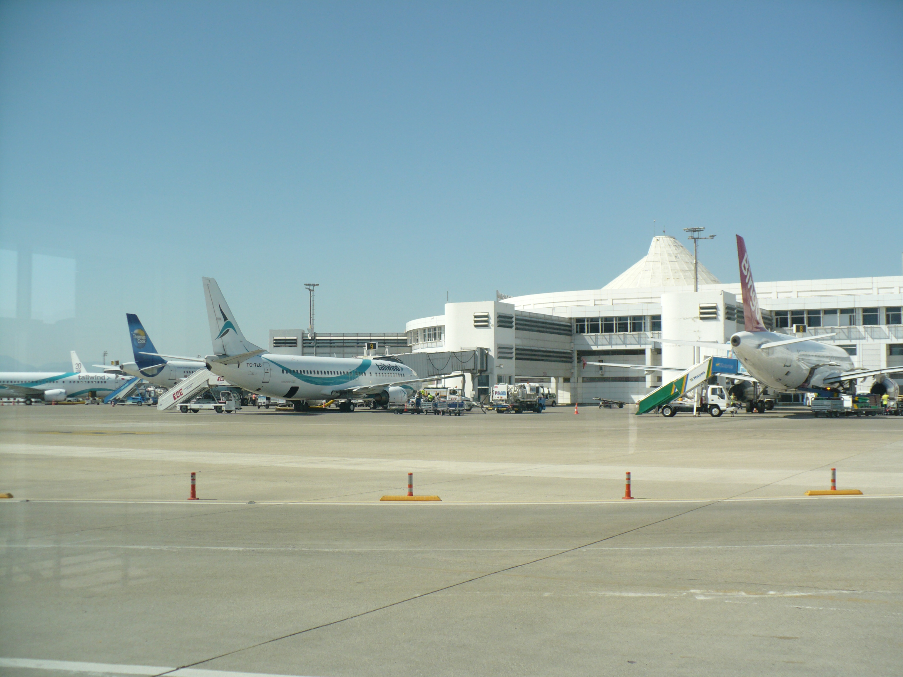 Antalya Airport